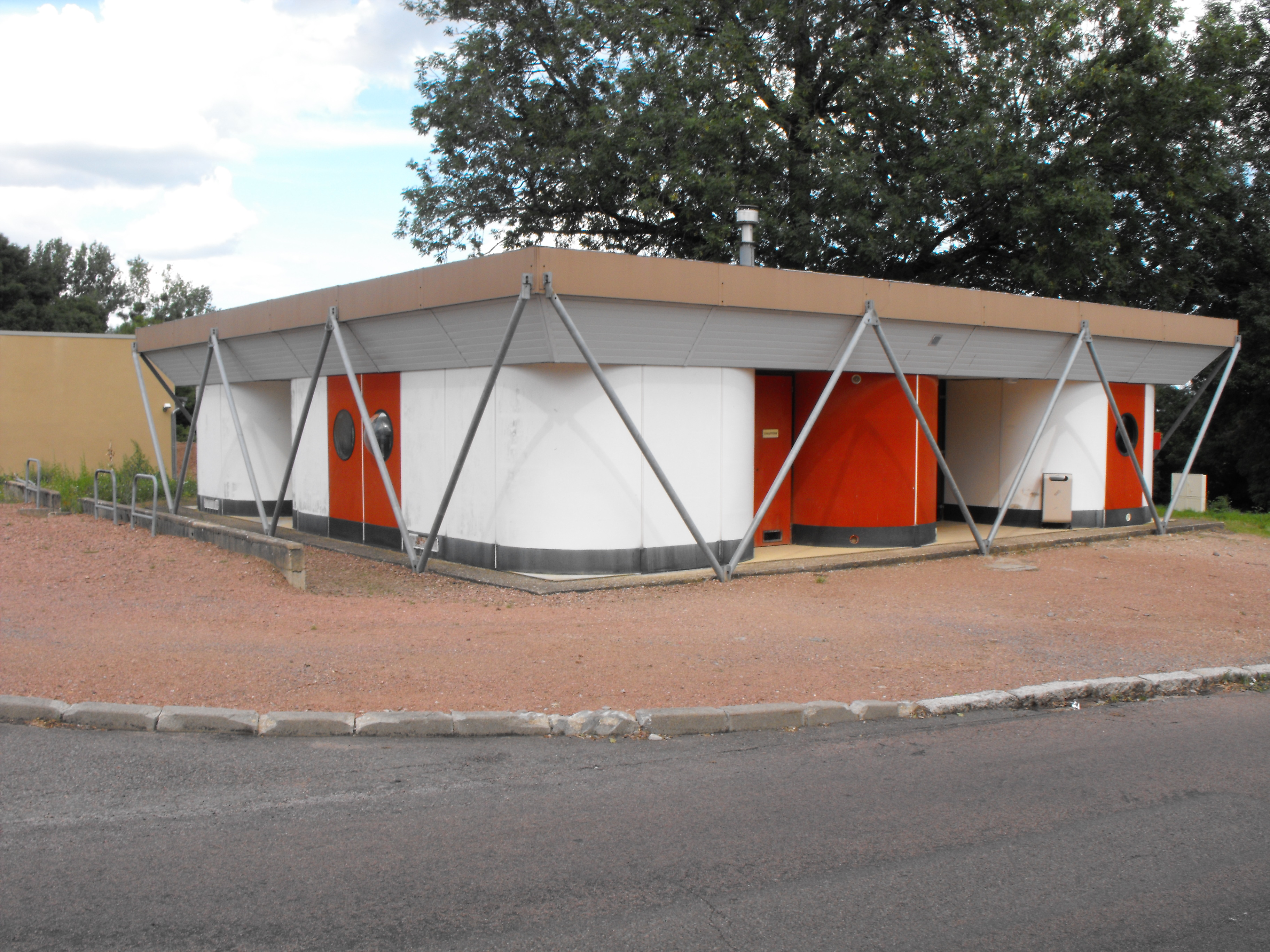 Liernais: the "Mille-Club"..